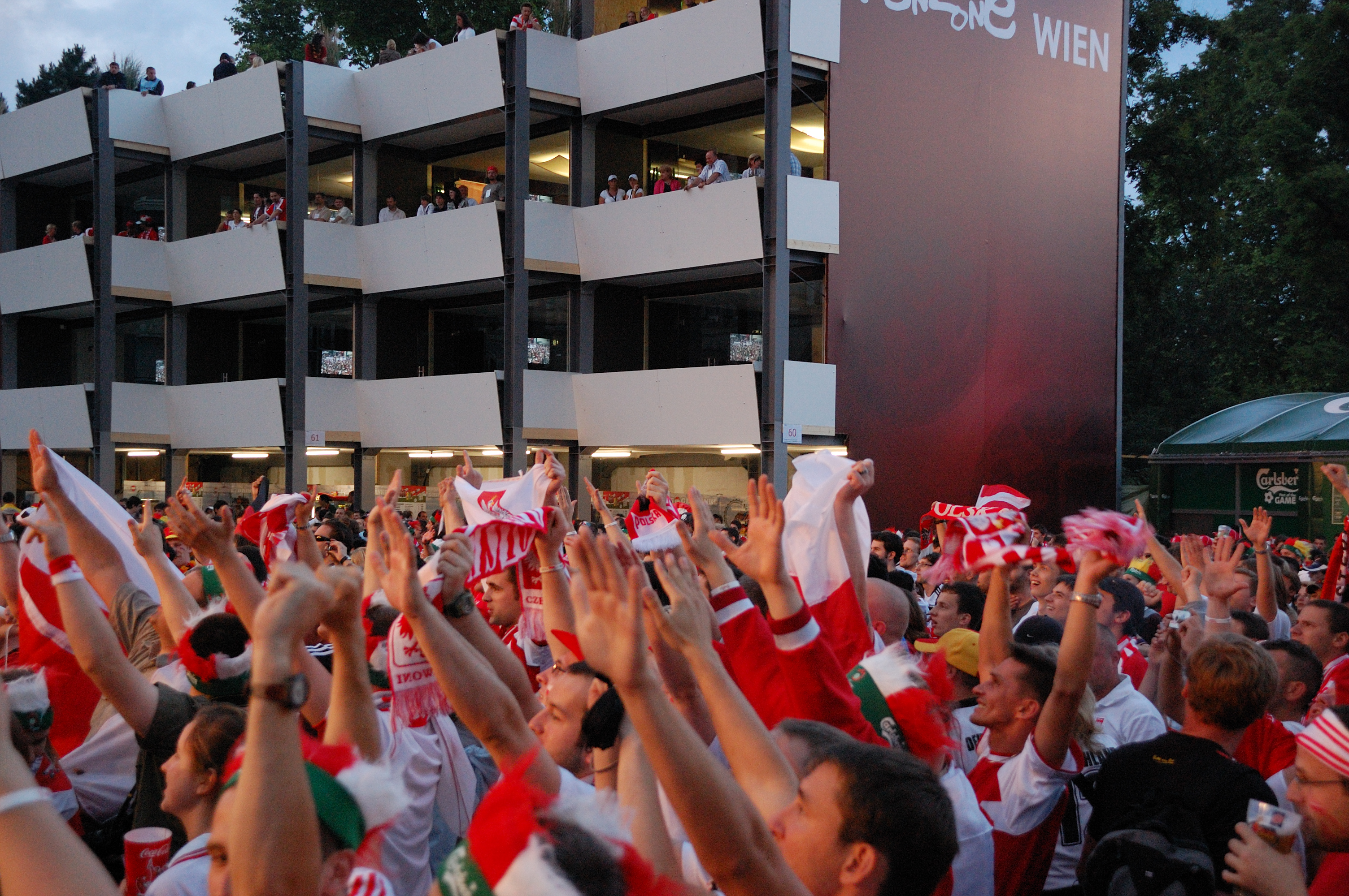 Polish fans, during Euro 2008.